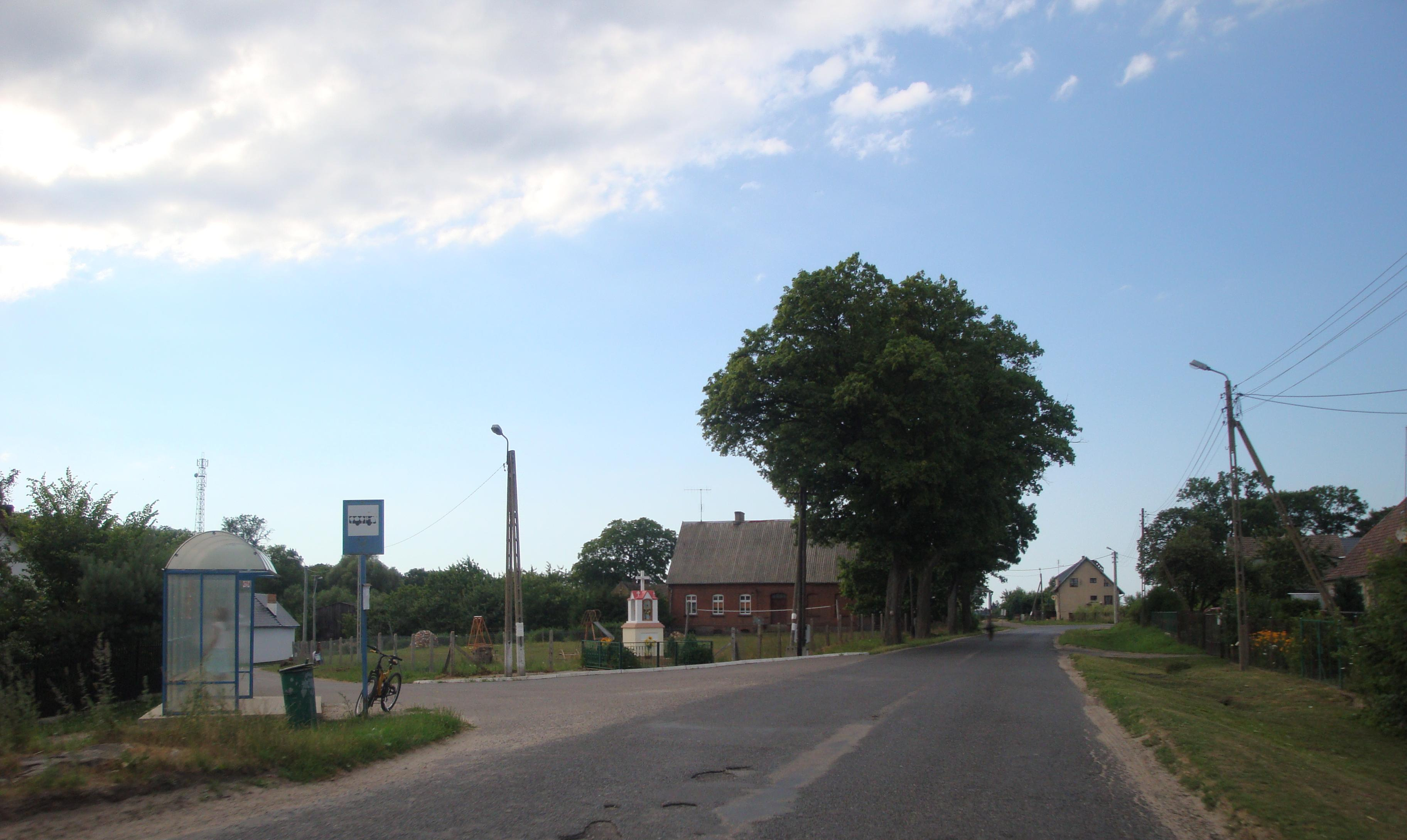 Klęcino-village in Pomeranian Voivodeship, Poland. Bus stop